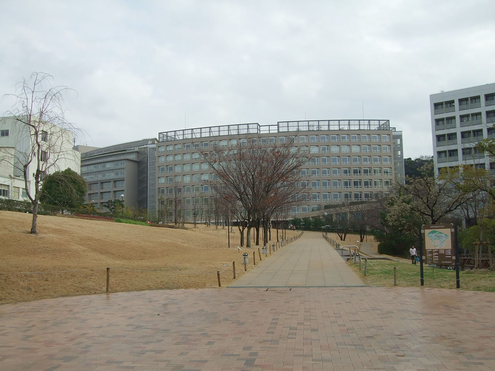 Fukuoka Institute of Technology